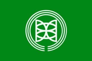 Flag of Sekikawa Niigata